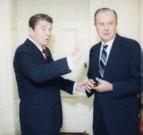 Robert D. Nesen and Ronald Reagan in the Oval Office